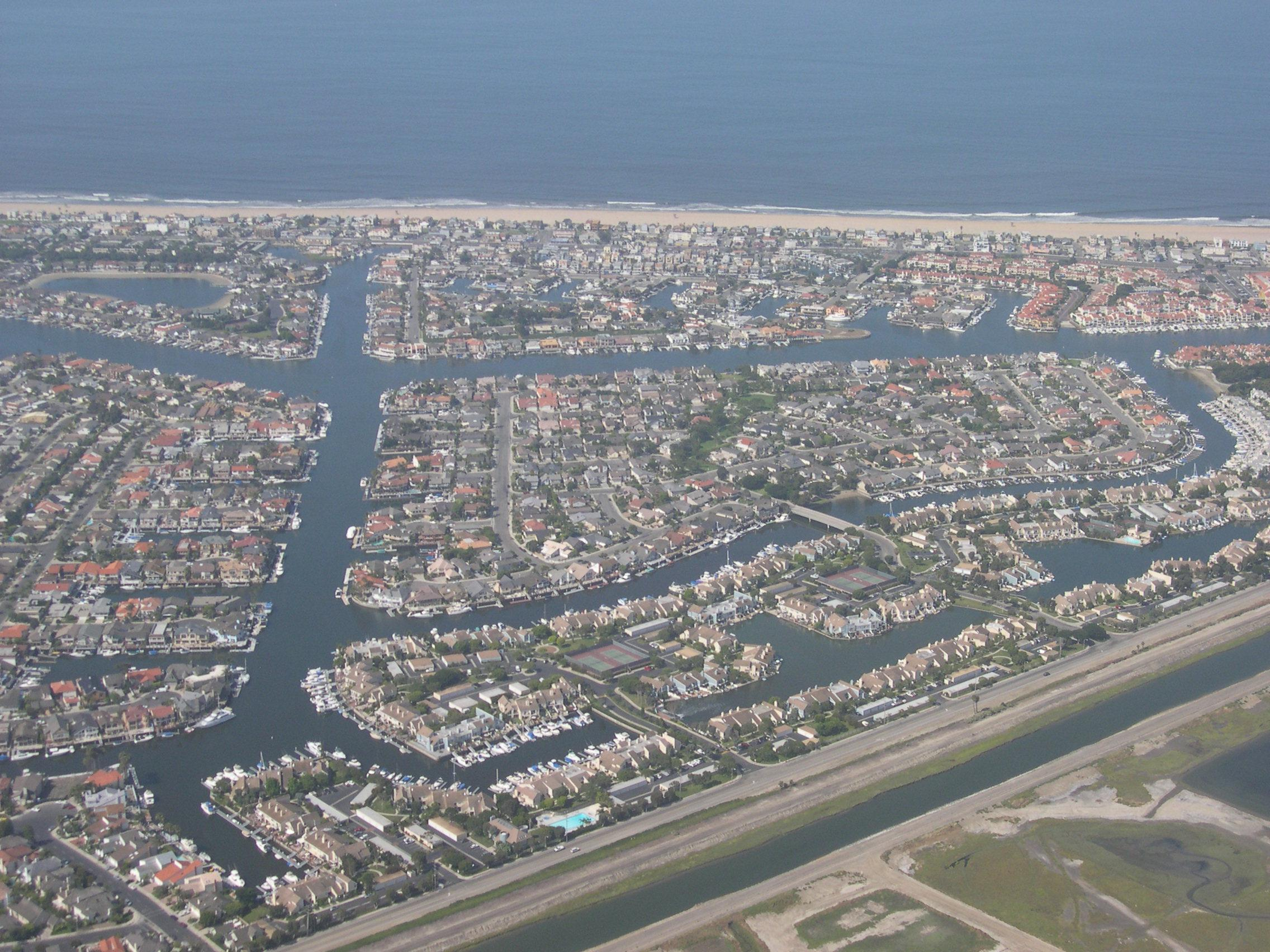 Huntington Harbor, CA Source: Photo by User:Sfoskett